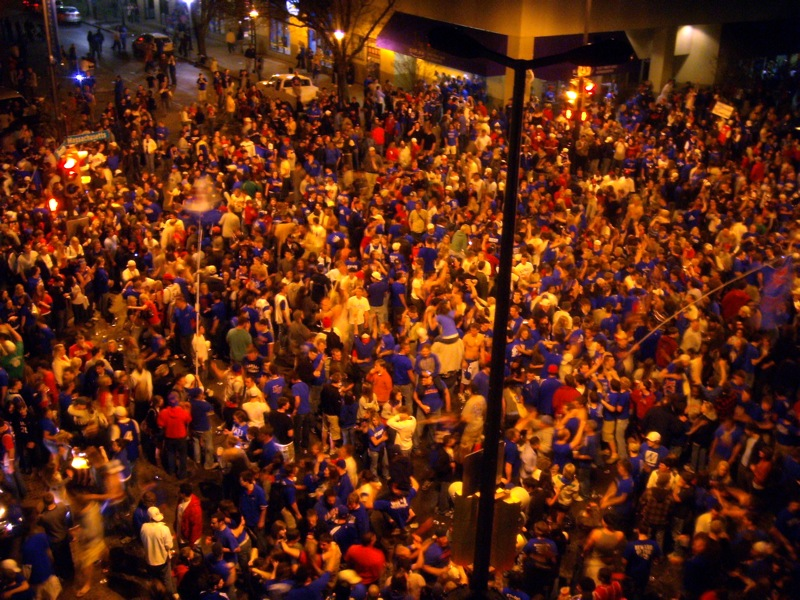 The intersection of 10th Street and Massachusetts Street in downtown Lawrence, Kansas, after the University of Kansas beat the University of North Carolina in the 2008 NCAA men's basketball tournament.